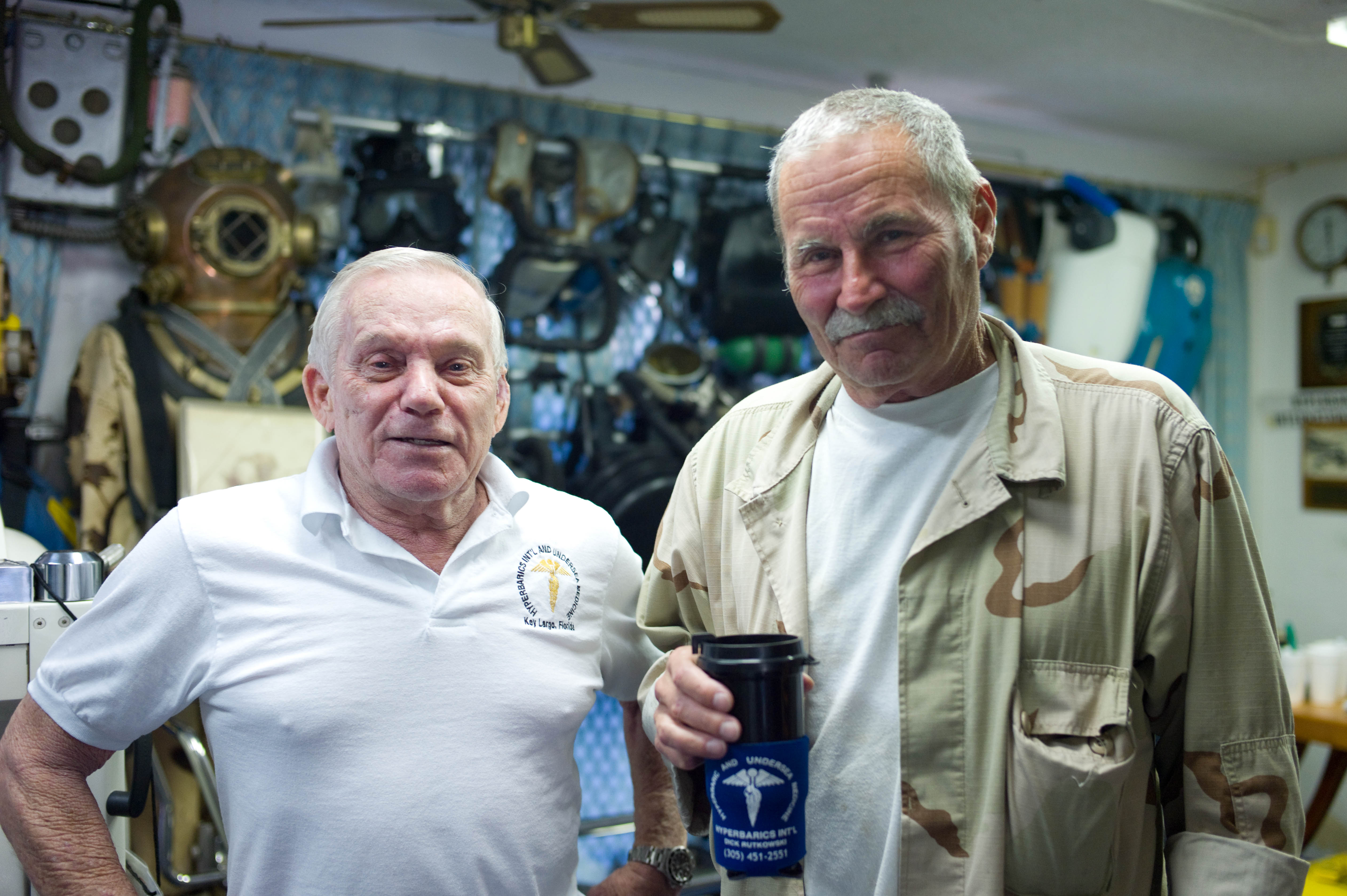 Dick Rutkowski and Morgan Wells